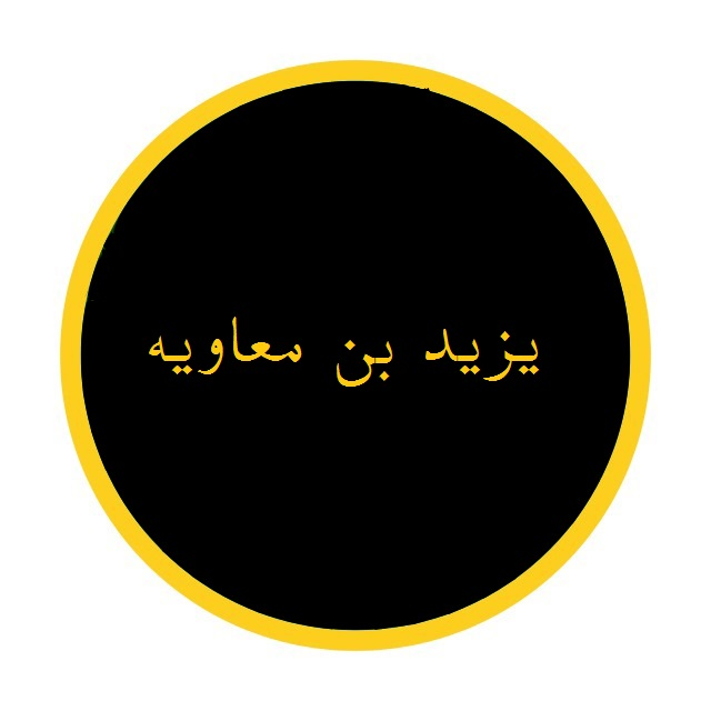 Calligraphy of Yazīd ibn Mu‘āwiya ibn Abī Sufyān